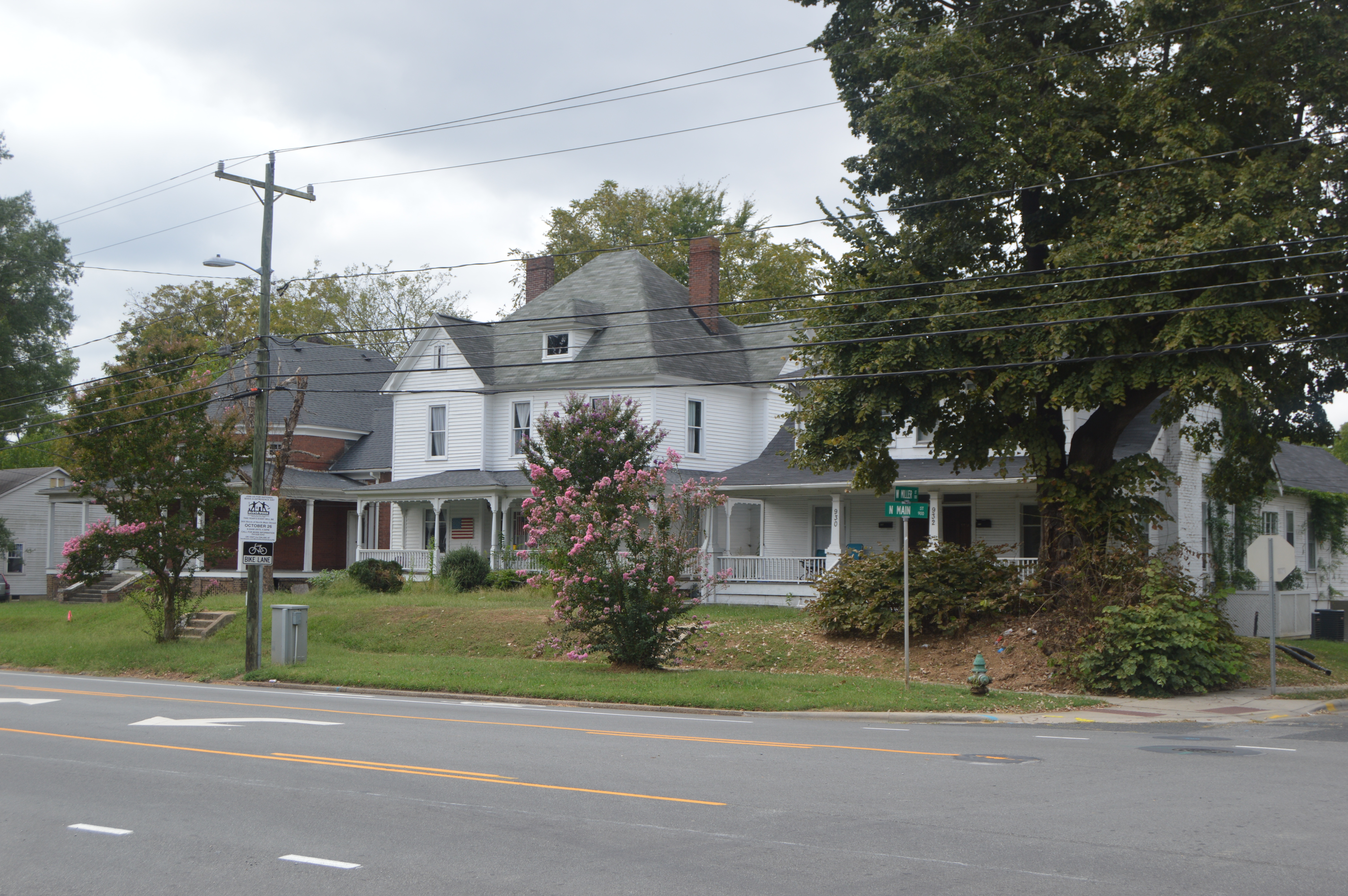 Houses on the northwestern side of Main Street (U.S. Route 29/U.S. Route 70/North Carolina Highway 150) at the Miller Street intersection in Salisbury, North Carolina, United States. This block is part of the North Main Street Historic District, a historic district that is listed on the National Register of Historic Places.